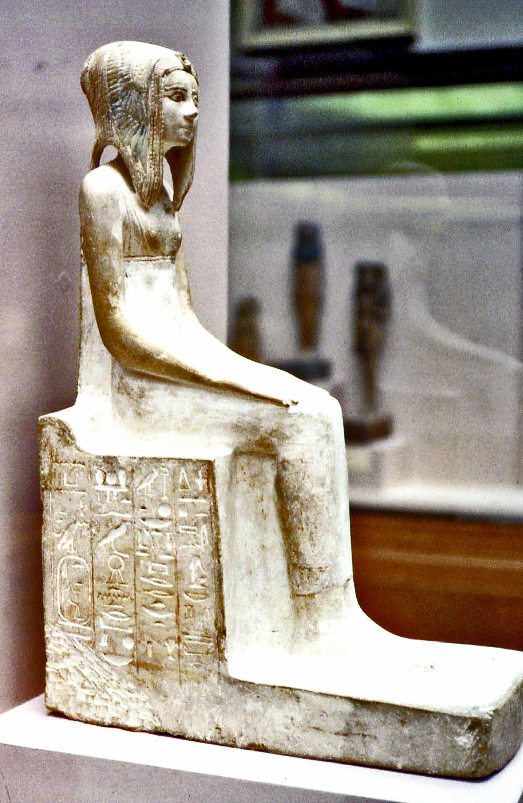 Statuette of Queen Tetisheri, wife of Senakhtenre (?) and mother of Seqenenre Tao, believed to come from Dra Abu el-Naga. • Material: painted limestone. • Dimensions: Height 37 cm. • Conservation: London. British Museum, 22558. Currently this statue of the British Museum, is regarded as a FORGERY. Bibliography: Davies. "The statue of Queen Tetisheri"